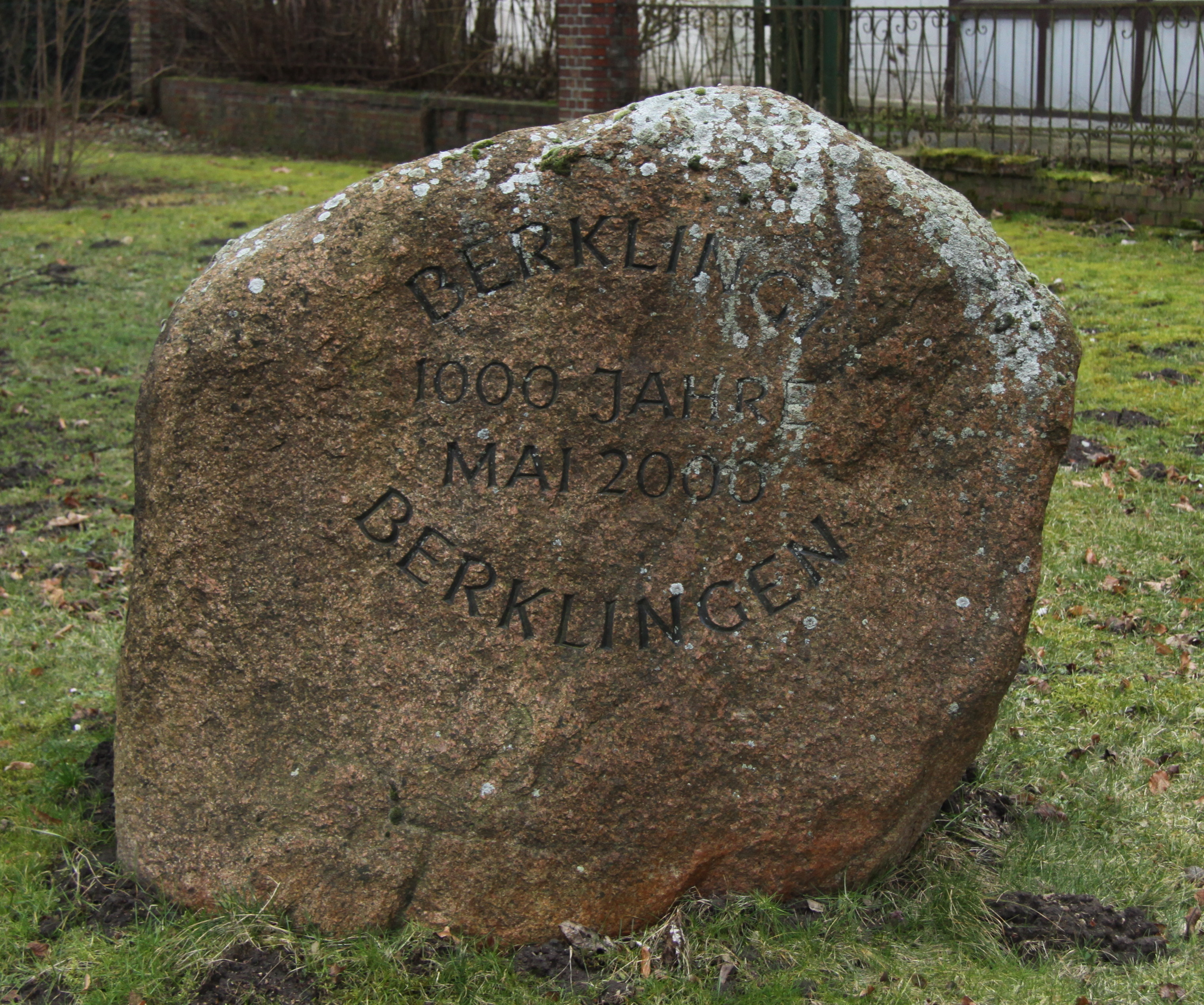 Memorial for soldiers und missing soldiers in WW1 and WW2 in Berklingen, Lower Saxon, Germany